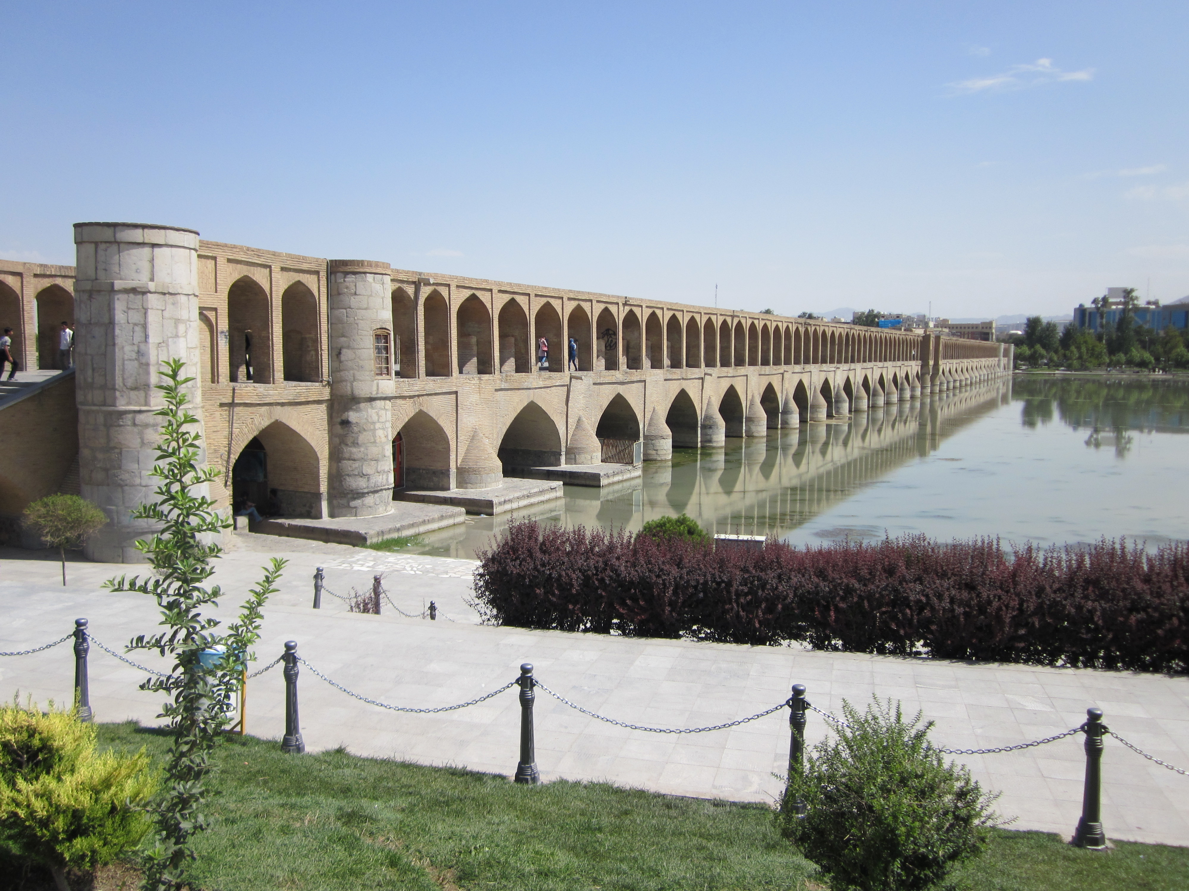 Si-o-se Bridge, Isfahan, Iran.